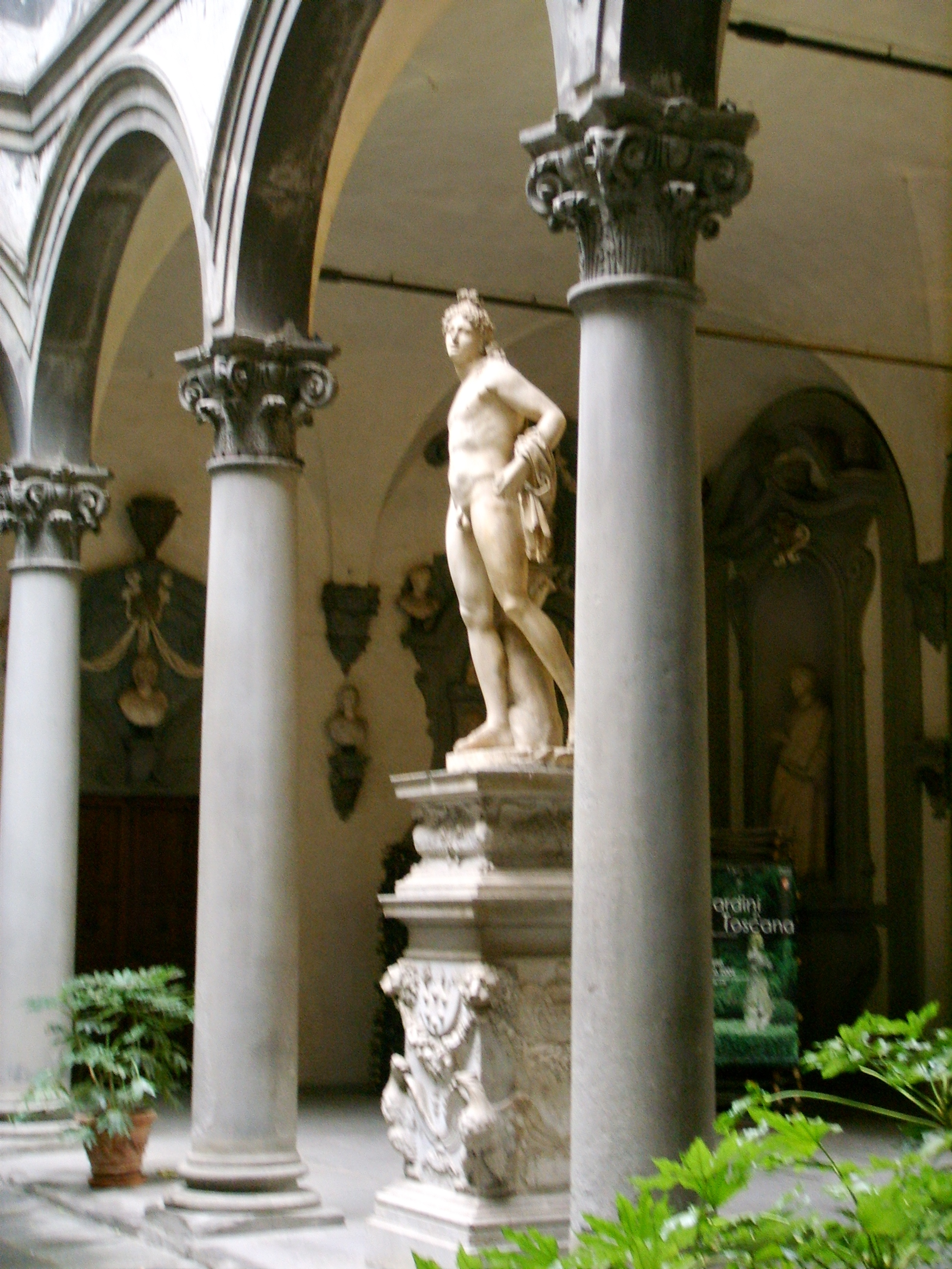 Palazzo Medici Riccardi in Florence, Italy: courtyard, with the statue of Orpheus and Cerberus, by Baccio Bandinelli.